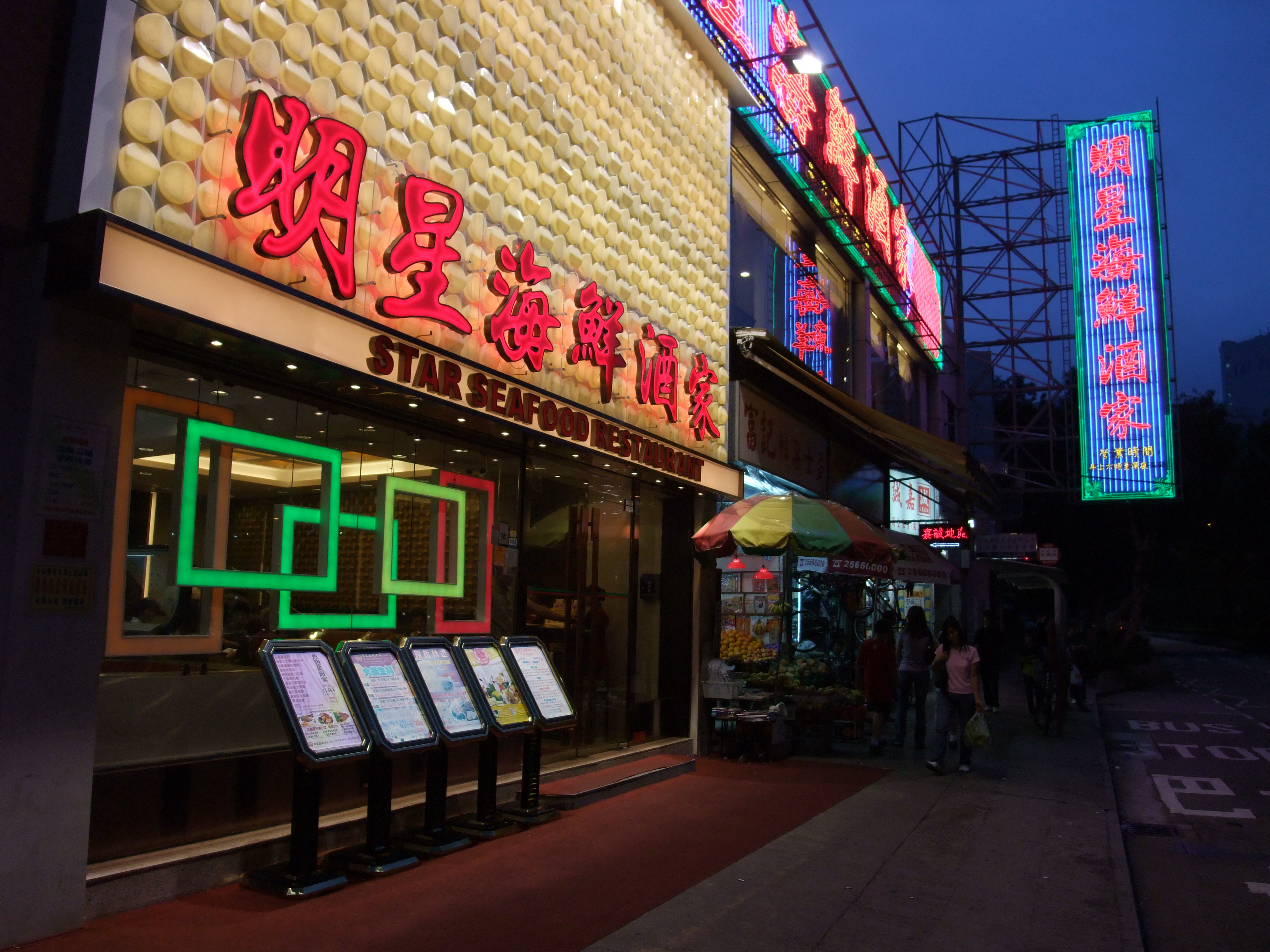 Photo of Star Seafood Restaurant Tai Po